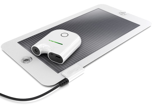 Changers solar panel and mobile battery for any mobile device that charges via USB.